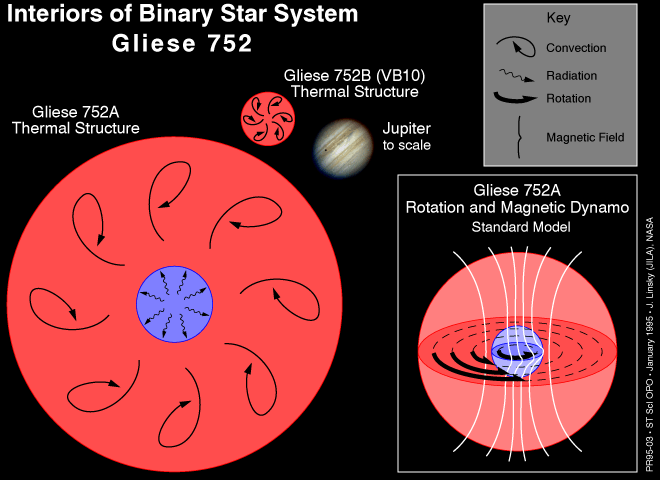 The Interior Workings of Stellar Dynamo Gliese 752 Image Type: Illustration